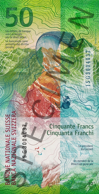 Back of the Swiss 50-franc banknote, ninth series (issued in 2016).